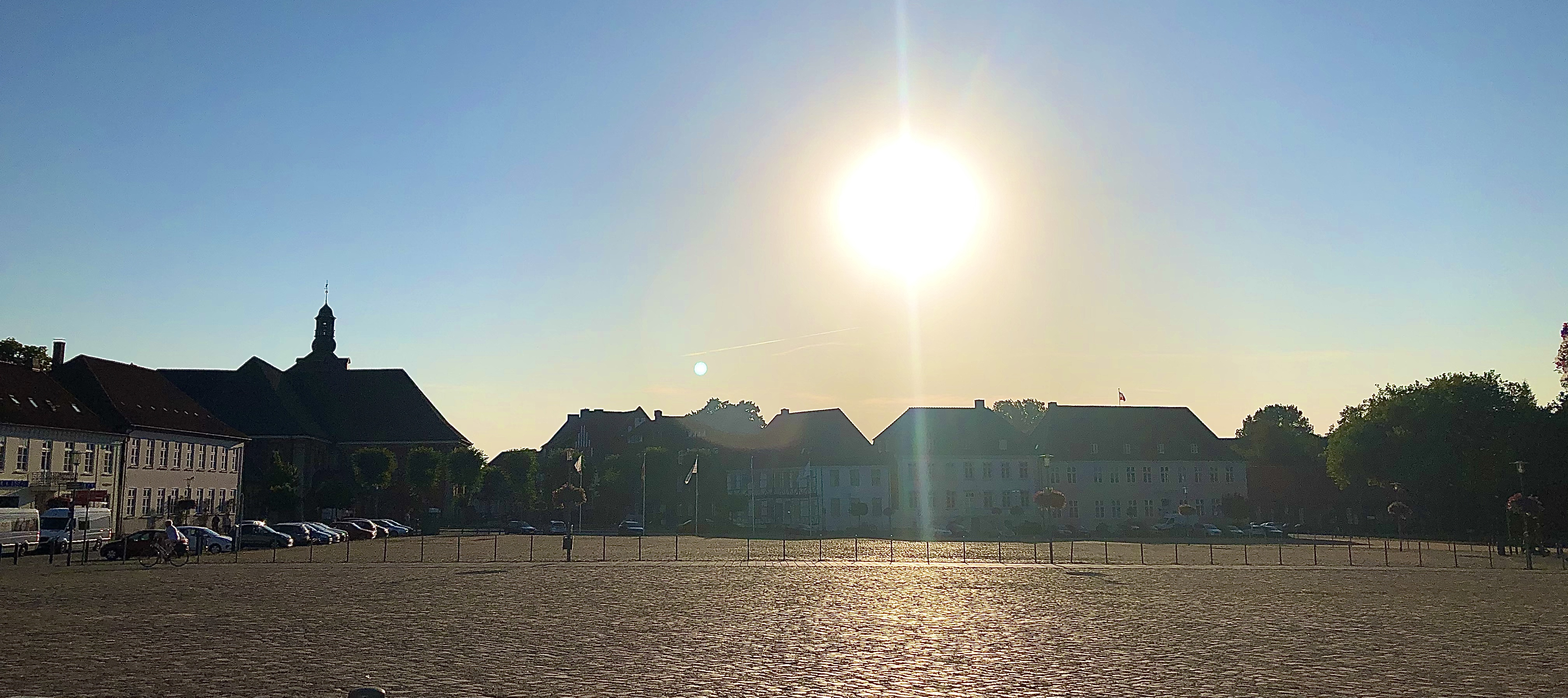 Paradeplaats in Rendsburg, Germany